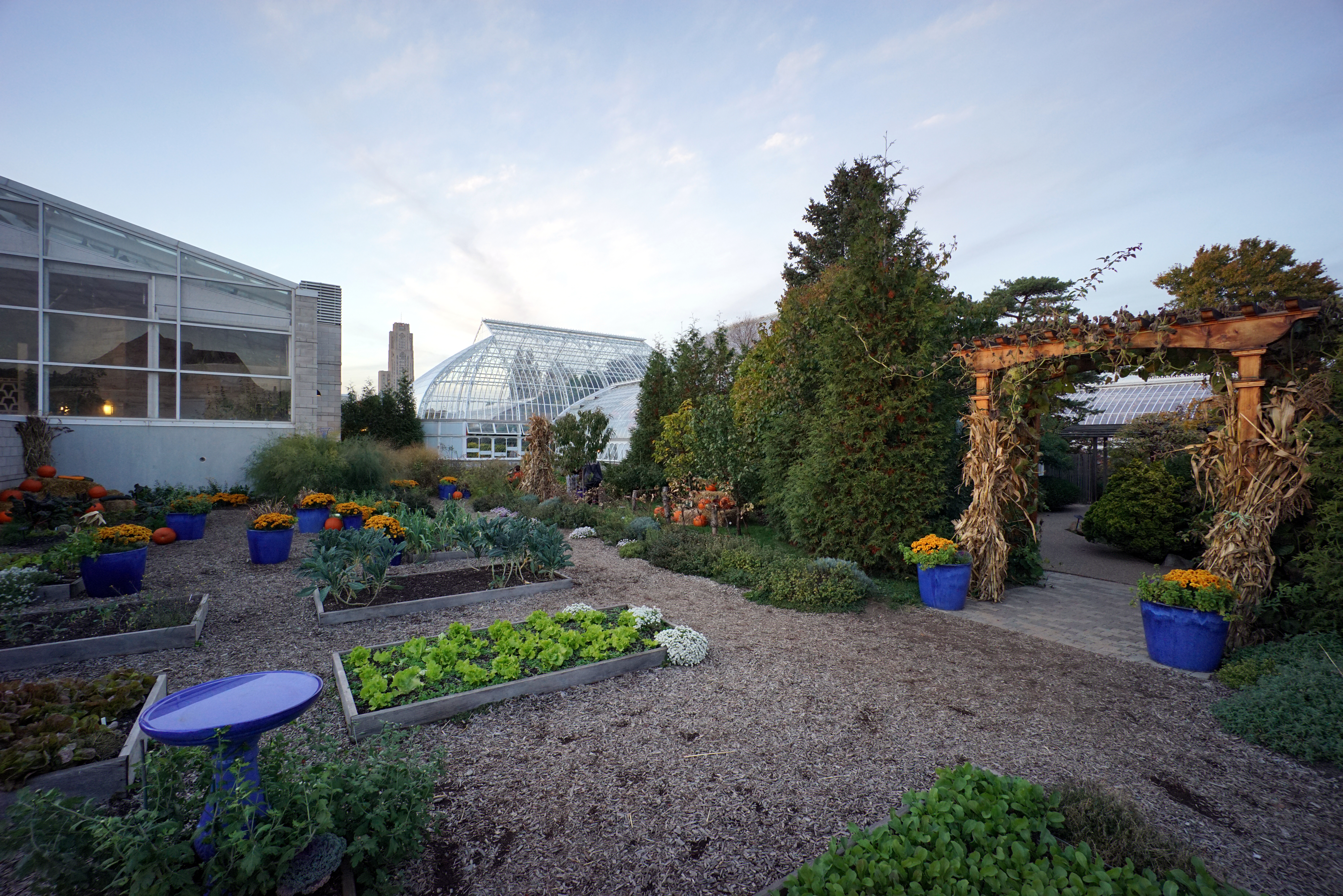 The outdoor food garden at the Phipps Conservatory. The Phipps Conservatory and Botanical Gardens is a complex of buildings and grounds set in Schenley Park, Pittsburgh, Pennsylvania. Founded in 1893, the gardens serve to educate and entertain the people of Pittsburgh with formal gardens.